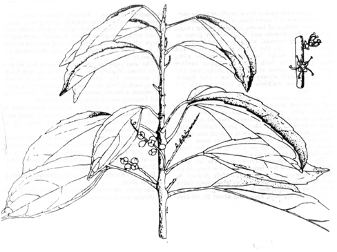 Alchorneopsis portoricensis sometimes considered syn. of Alchorneopsis floribunda